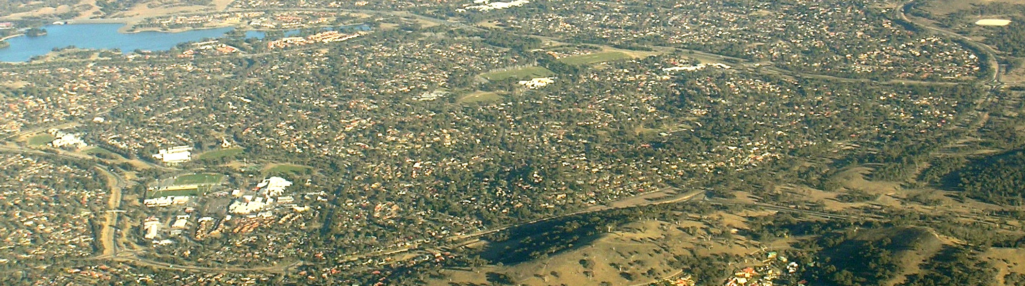 Aerial photo of Wanniassa